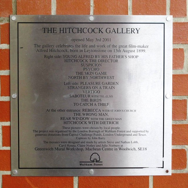 Leytonstone tube station - Hitchcock Gallery plaque